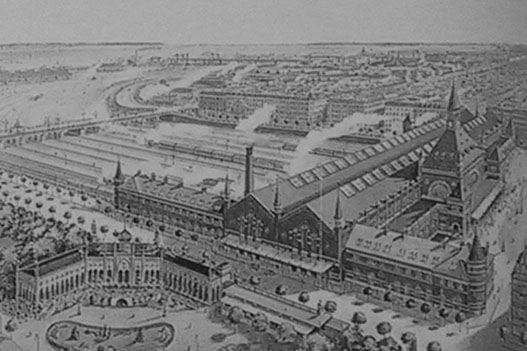 Copenhagen Central Station in Copenhagen, Denmark